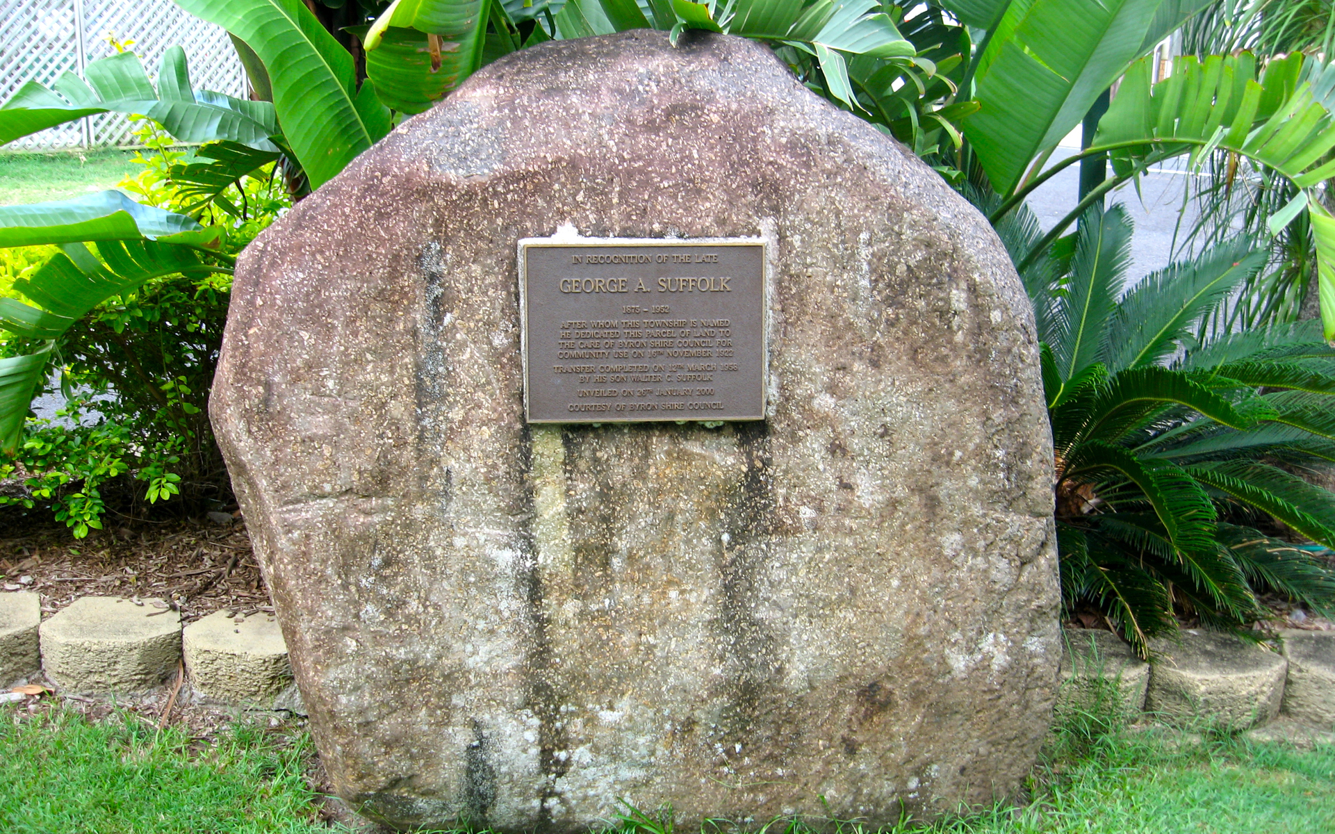 A photograph of a plaque in recognition of George A. Suffolk, situated in the Suffolk Park camp grounds.